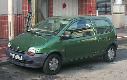 Image of the Renault Twingo.